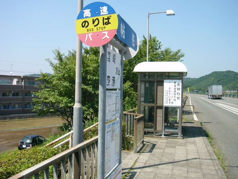 Chosa highway bus stop, Aira town Kagoshima prefecture, Japan